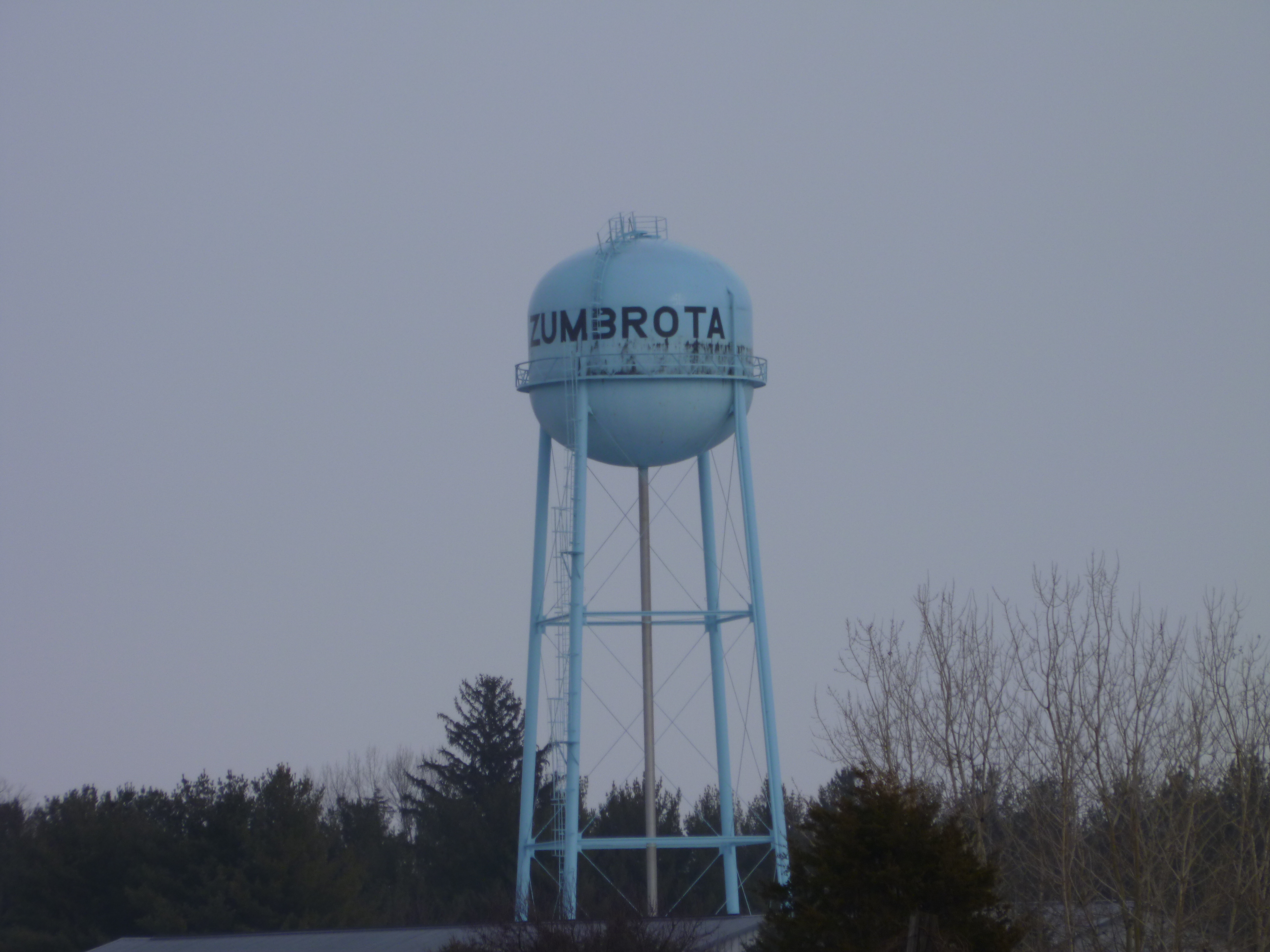 Zumbrota, MN water tower